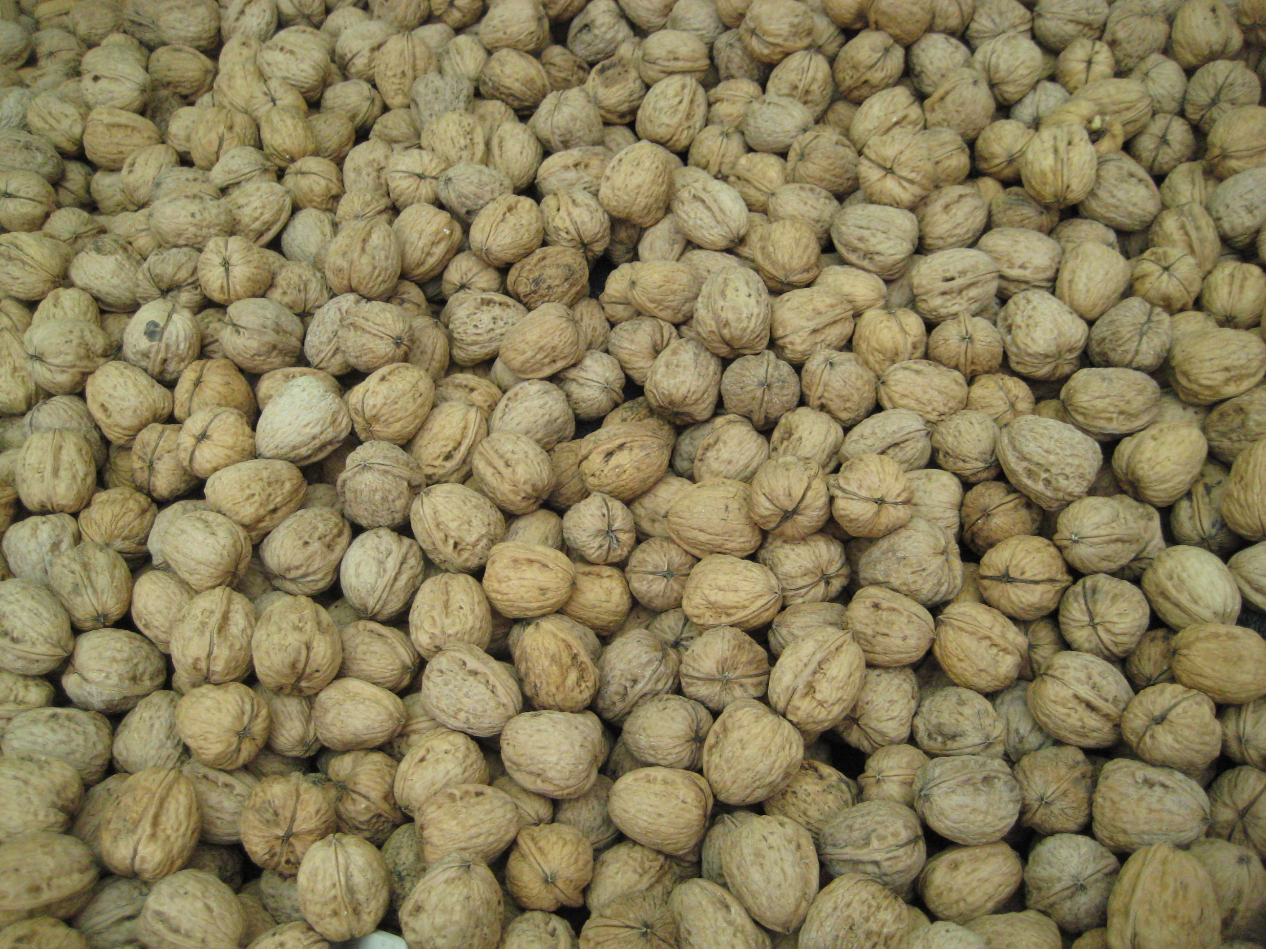 Walnuts